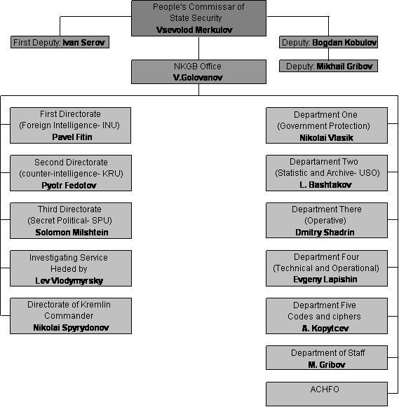 NKGB Organization 1941 (Self made image)